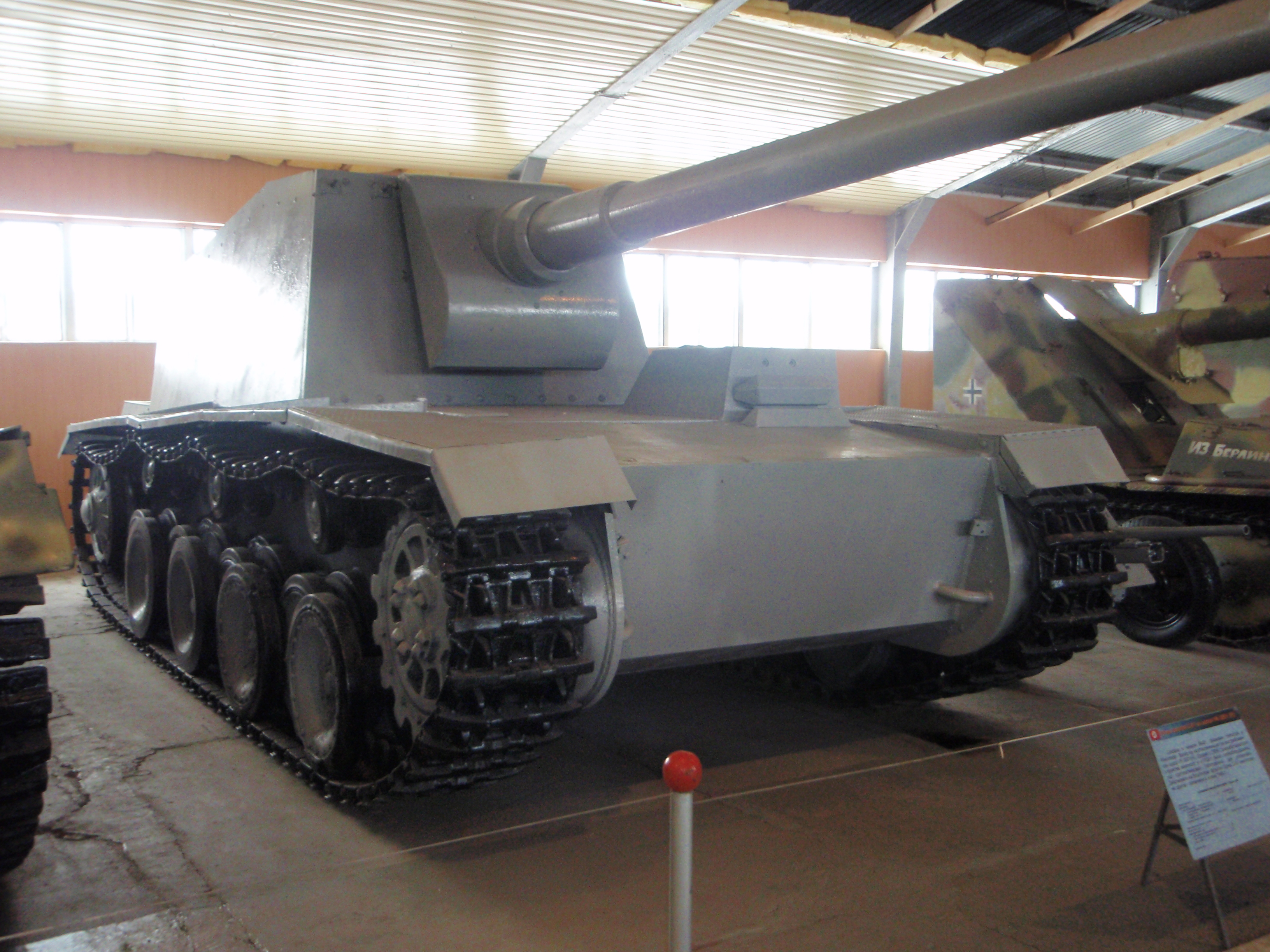 German heavy SP gun on VK3001 (H) chassis - the Sturer Emil - in Kubinka tank museum